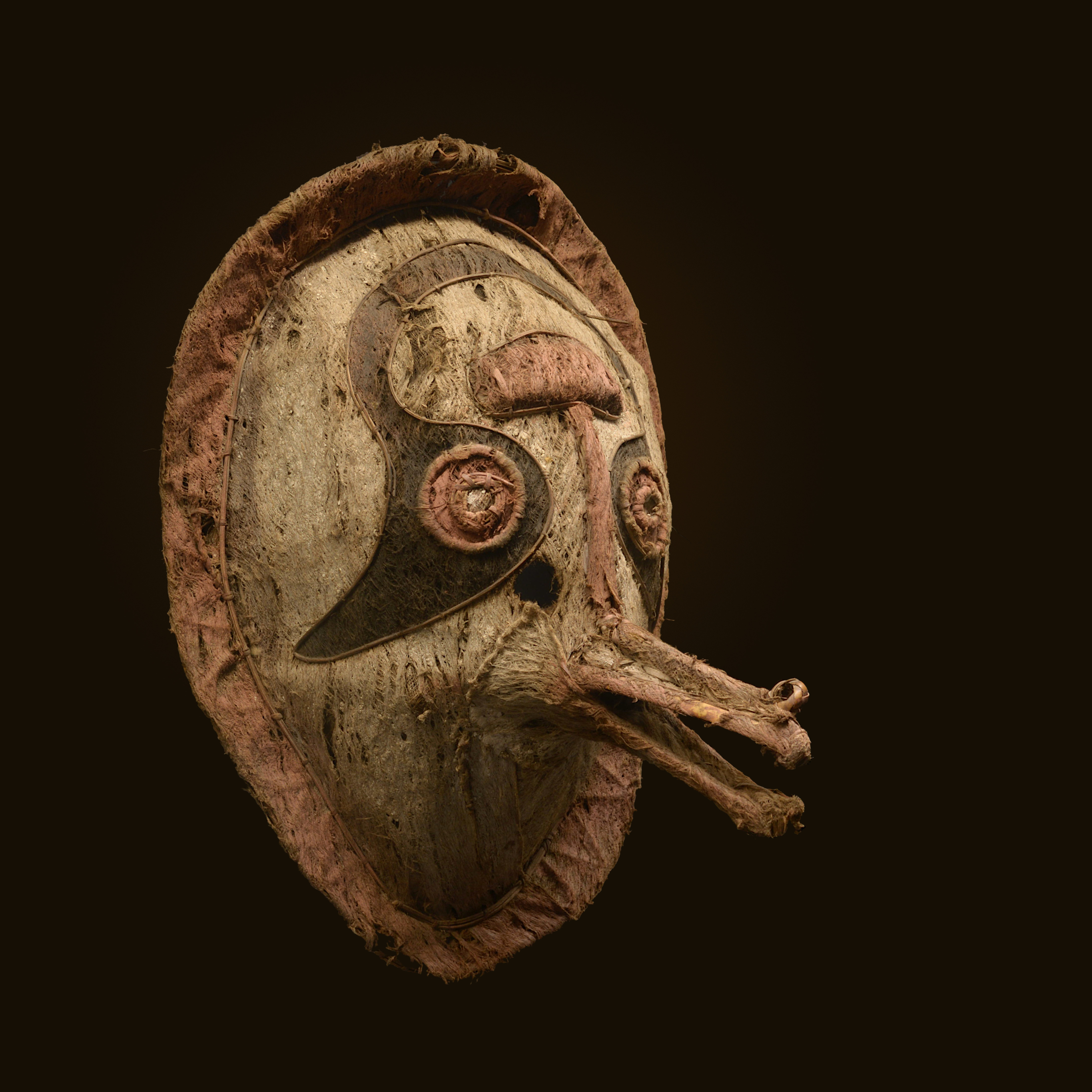 Eharo mask (Elema culture). Papua New Guinea. The eharo masks were wore during ritual dances, before formal sacred rituals. They were intended to be humorous figures, dancing with groups of women to the amusement of all.